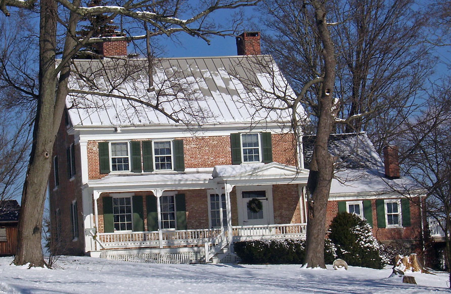 William Bull III House. Photographed by Daniel Case 2006-02-03